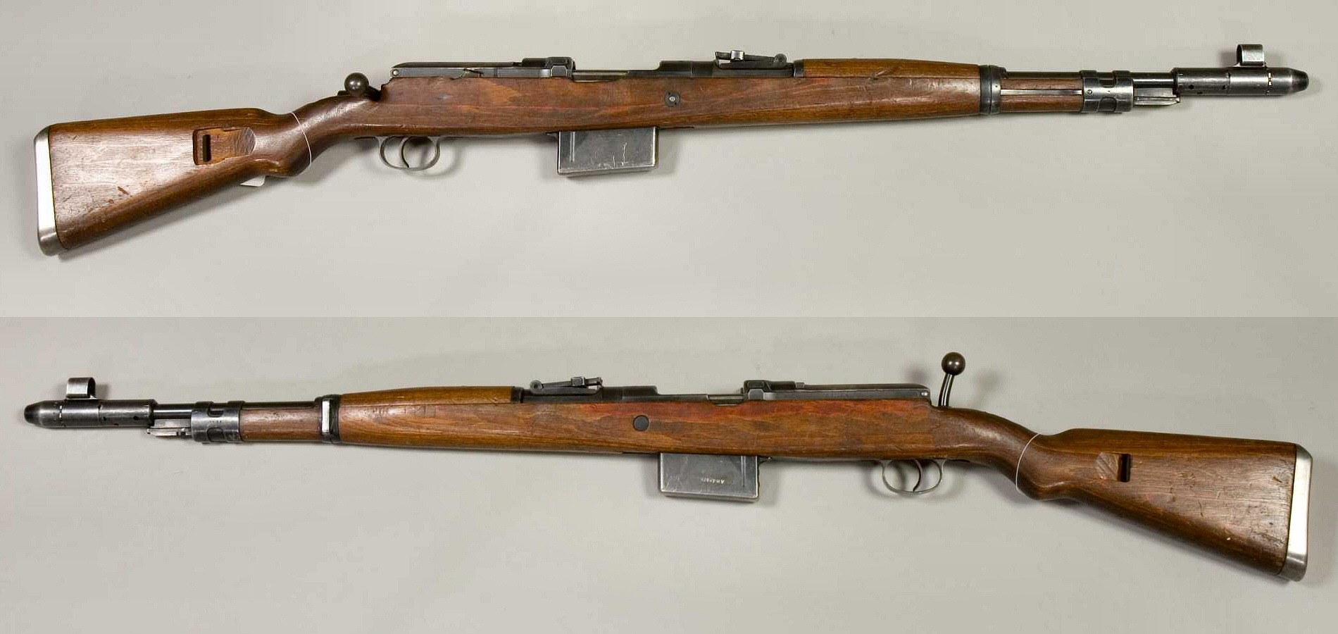 Gewehr 41 (Mauser), Germany. Caliber 7.92x57mm (8x57mmIS). From the collections of Armémuseum (Swedish Army Museum), Stockholm, Sweden.